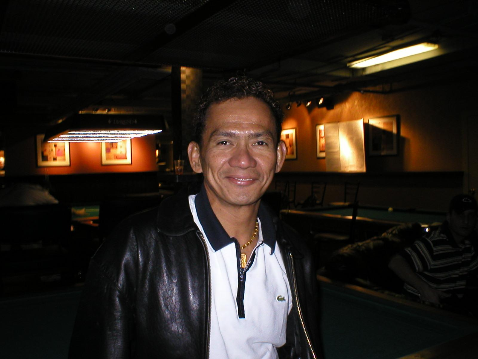 This is my personal picture that I took with my camera and may be released to the public domain.